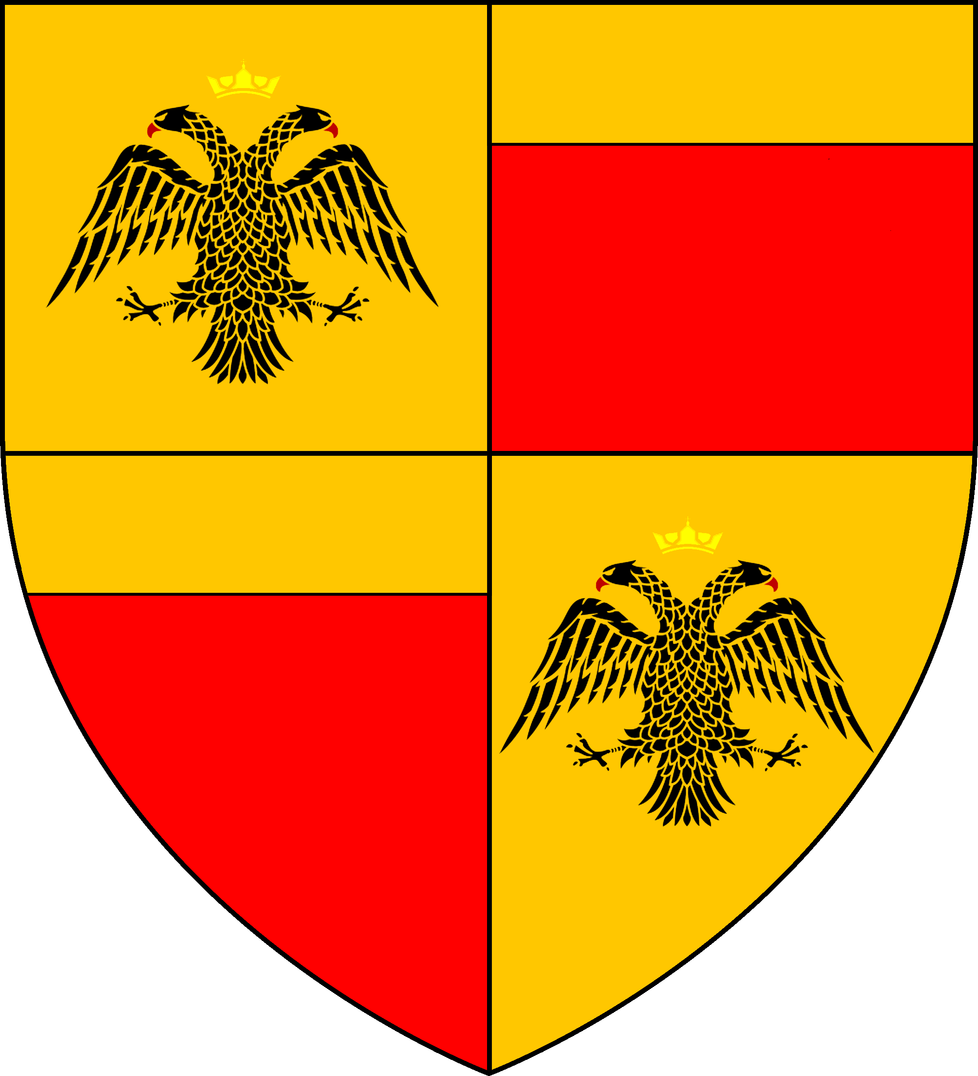 Escudo de Armas de la rama Ventimiglia emparentada con los Láskaris.